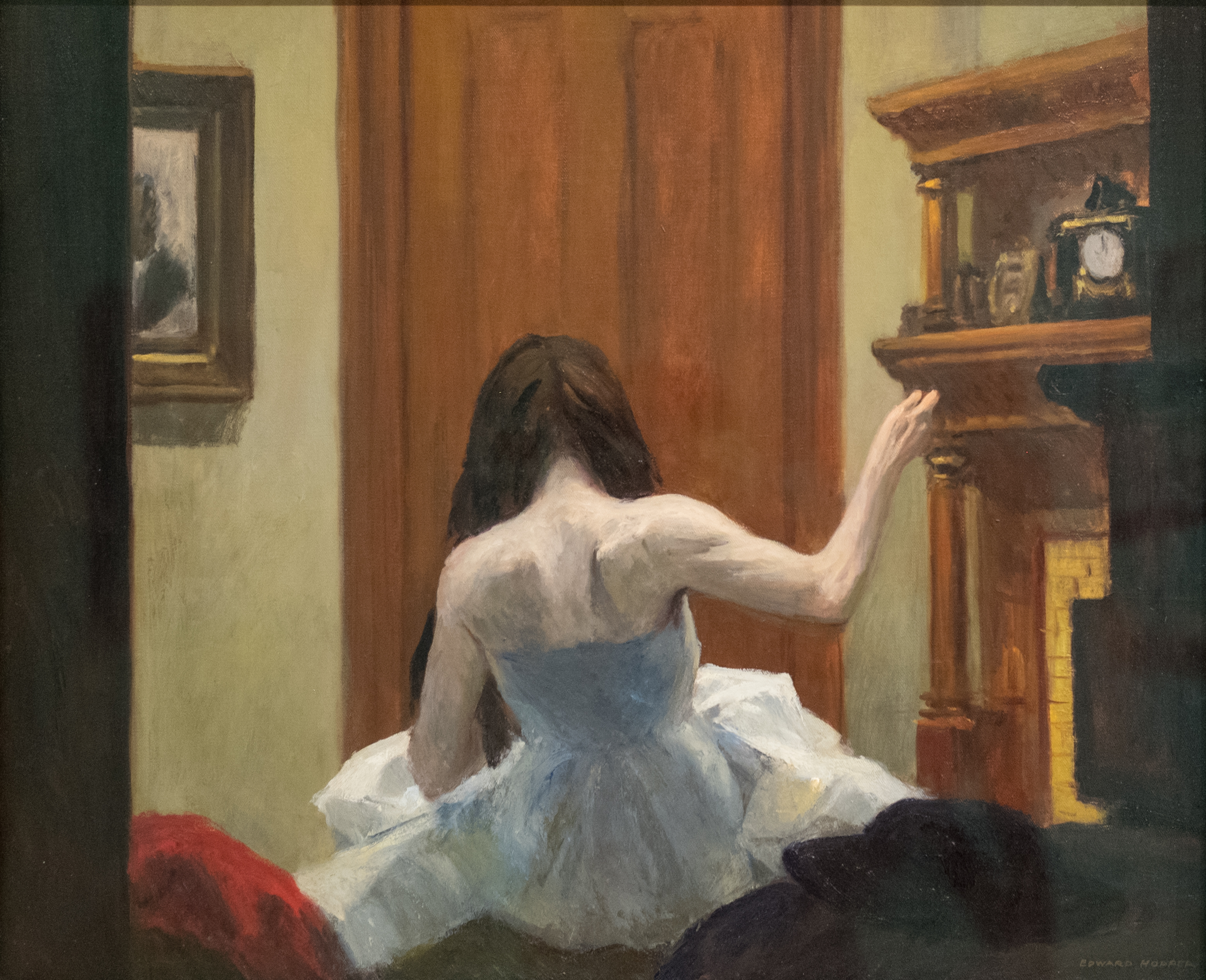 Edward Hopper, New York Interior, c. 1921 1/15/18 #whitneymuseum